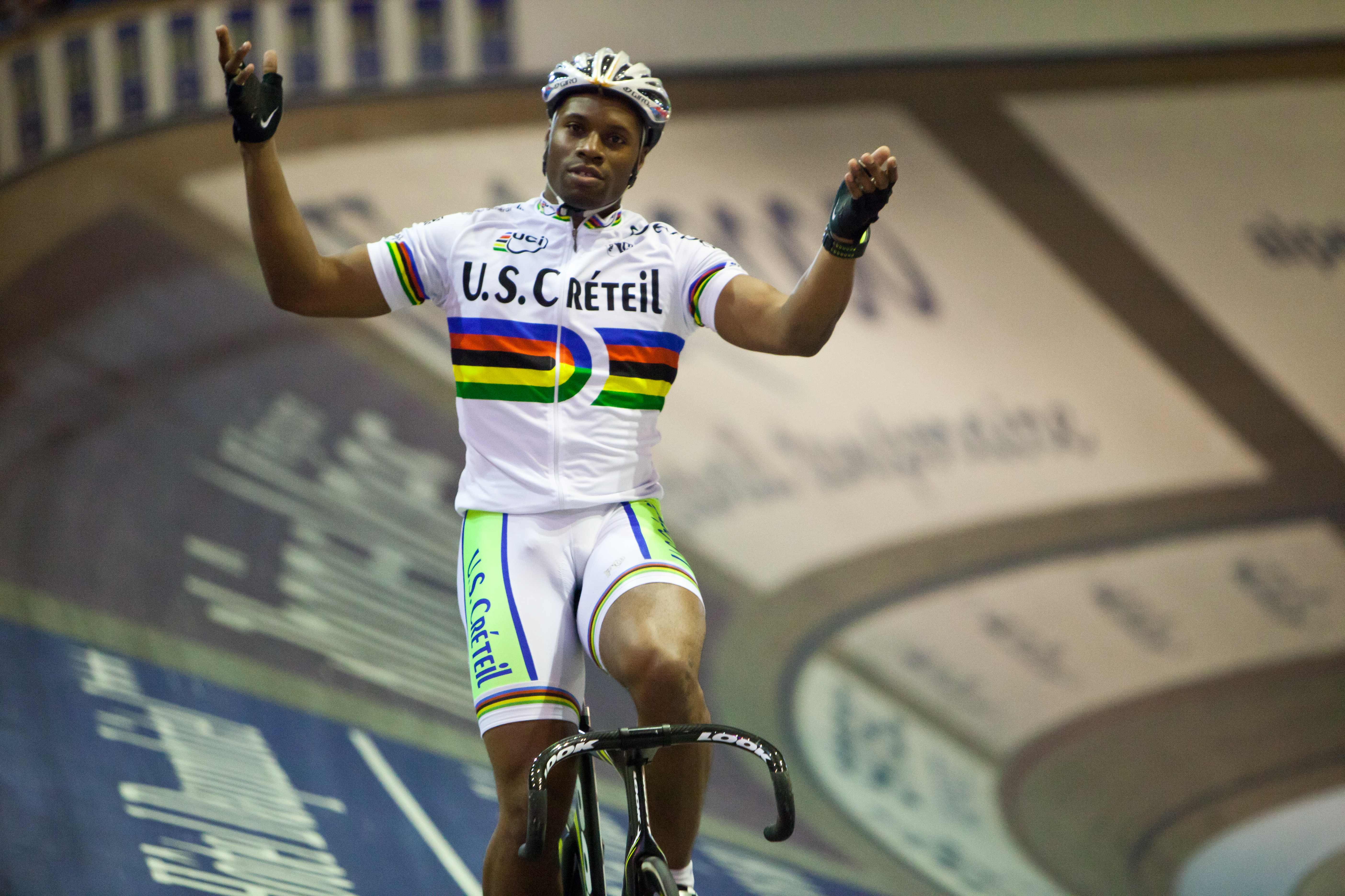 The making of this document was supported by Wikimedia CH. (Submit your project!) For all the files concerned, please see the category Supported by Wikimedia CH. Six jours de Grenoble 2011